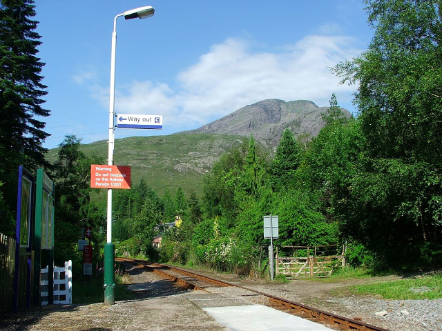 Achnashellach railway station. The railway station at Achnashellach on a warm summer day. The mountain, Fuar Tholl, can be seen in the background.